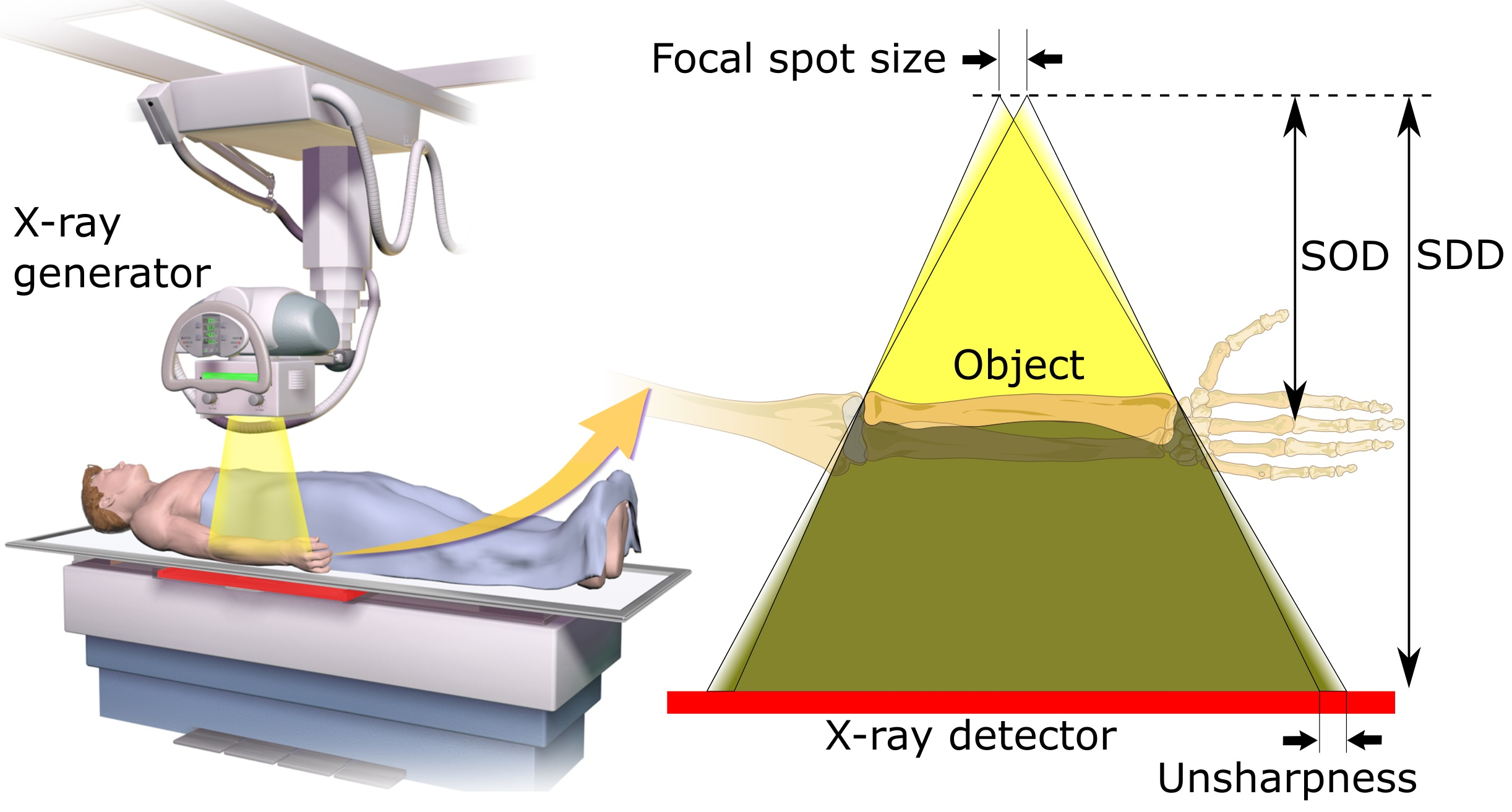 Focal spot size and unsharpness in projectional radiography. References: Focal spot size and unsharpness: Bruce Blakeley, Konstantinos Spartiotis (2006). "Digital radiography for the inspection of small defects". Insight 48 (2). SDD: Page 359 in: Olaf Dössel, Wolfgang C. Schlegel (2010) World Congress on Medical Physics and Biomedical Engineering September 7 - 12, 2009 Munich, Germany: Vol. 25/I Radiation Oncology. IFMBE Proceedings, Springer Science & Business Media ISBN: 9783642034749.